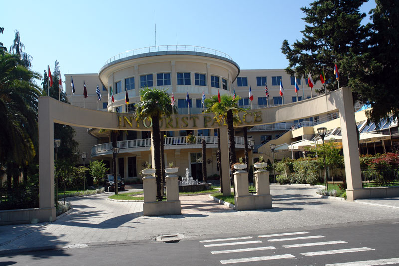 Hotel Intourist, Batumi, Georgia. Architect: Alexey Shchusev, 1939